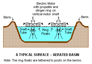 This is a diagram of a typical surface-aerated basin using floating, motor driven aerators. It was drawn using Microsoft's Paint program.